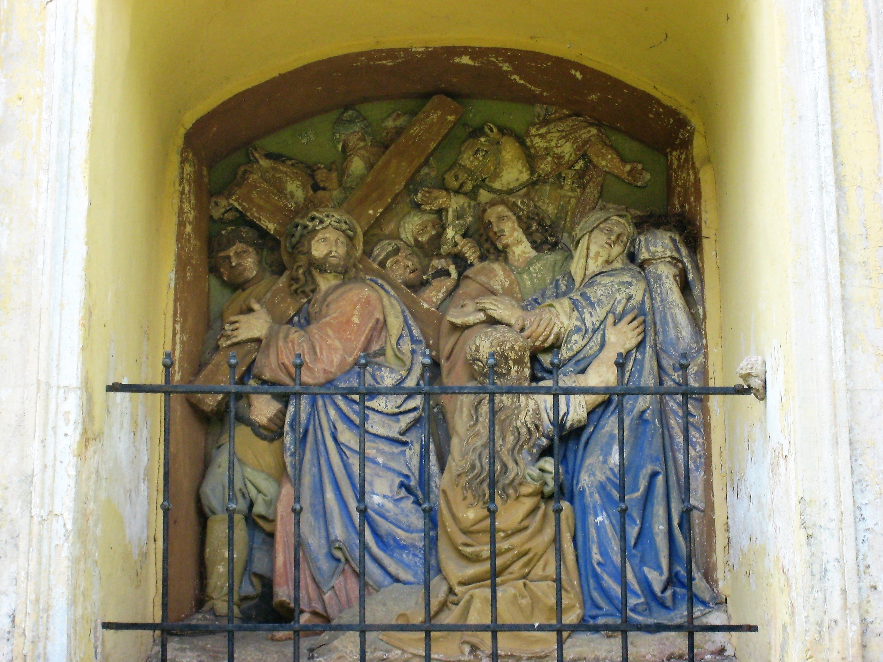 St. Pancras Parish Church, Slovenj Gradec: The station of the Cross